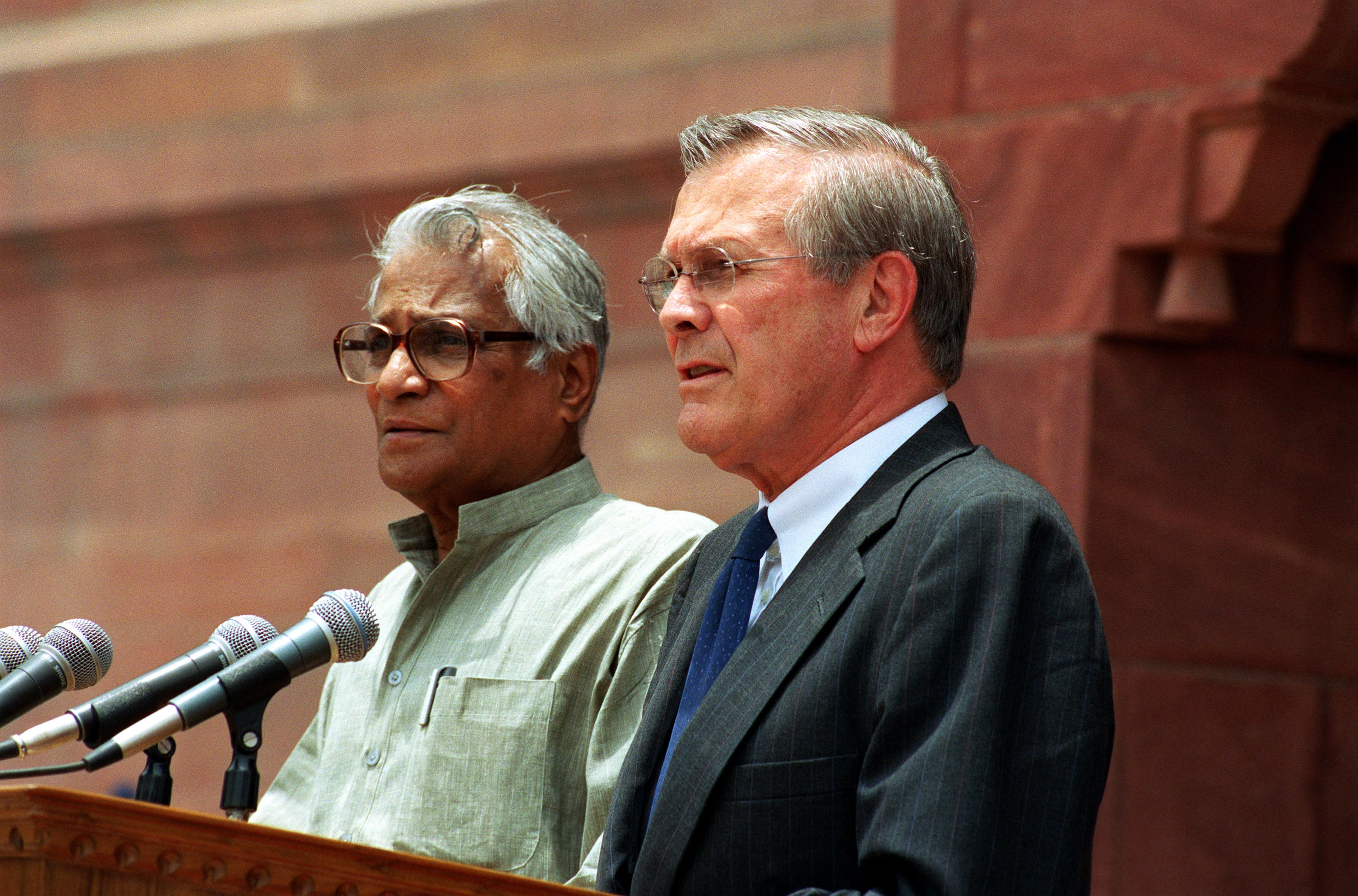 Indian Minister of Defense George Fernandes (left) and Secretary of Defense Donald H. Rumsfeld conduct a joint press conference outside South Block in New Delhi, India, on June 12, 2002. Rumsfeld is on a 10-day tour of nine countries to meet with senior leaders and to visit with U.S. troops deployed abroad